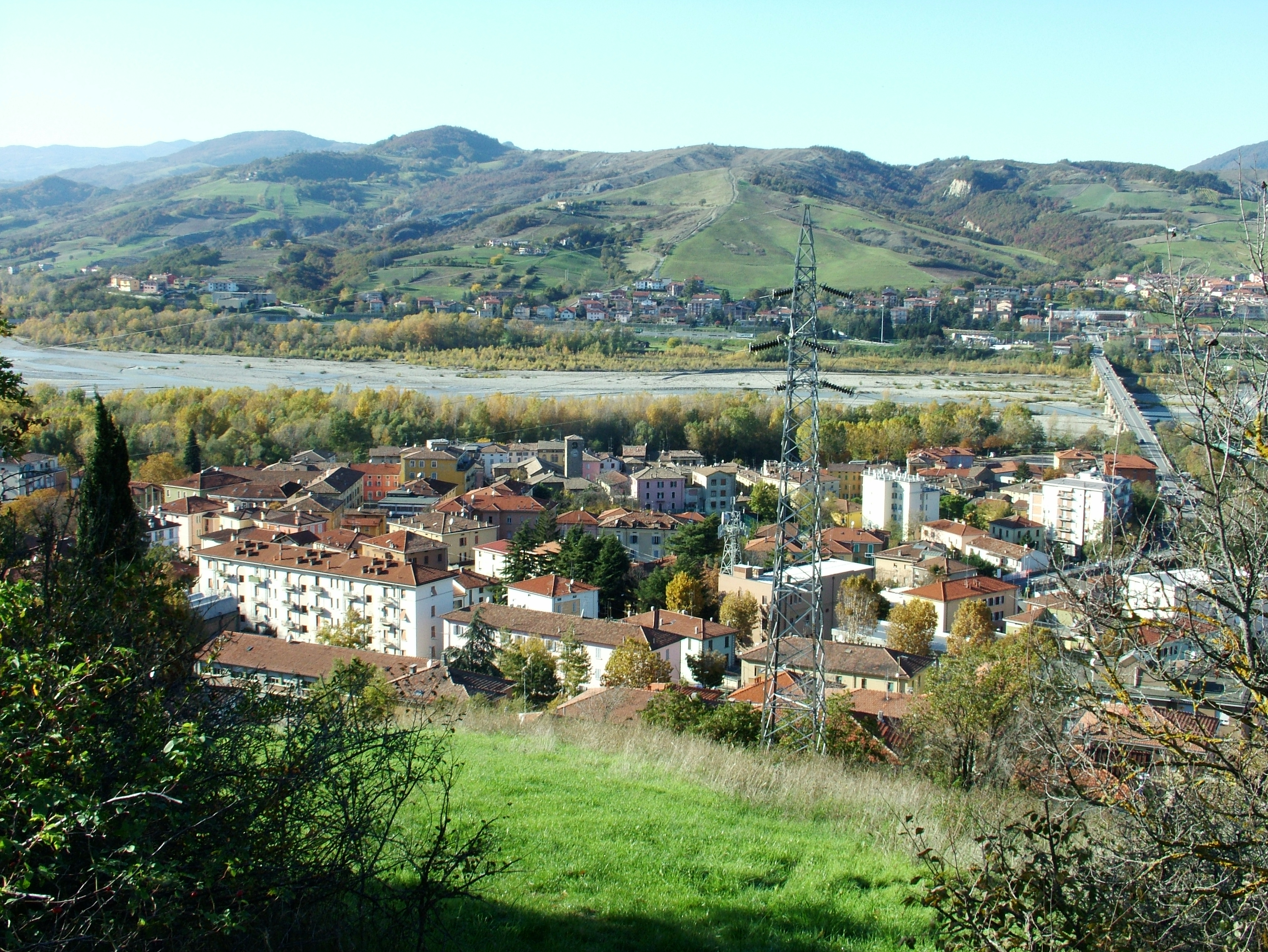 View of Fornovo di Taro, province of Parma, Italy.